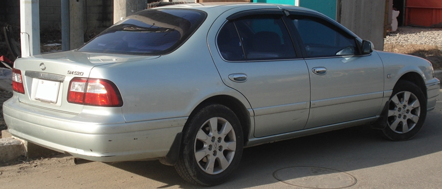 Renault Samsung SM5